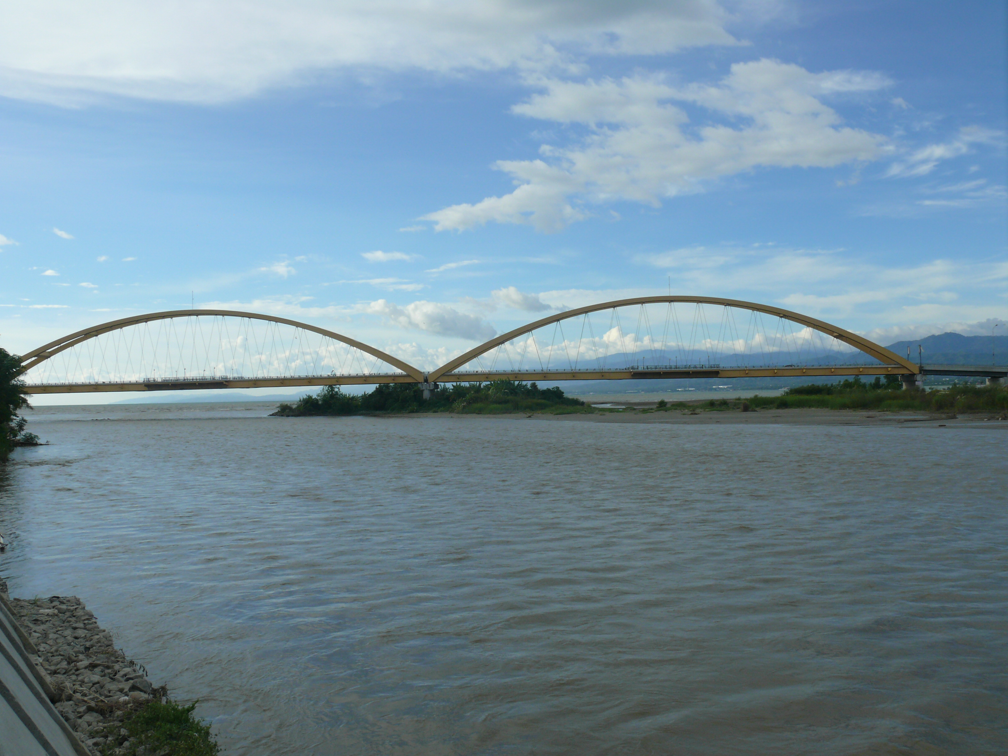 Palu Landscape (Bridge Yellow)